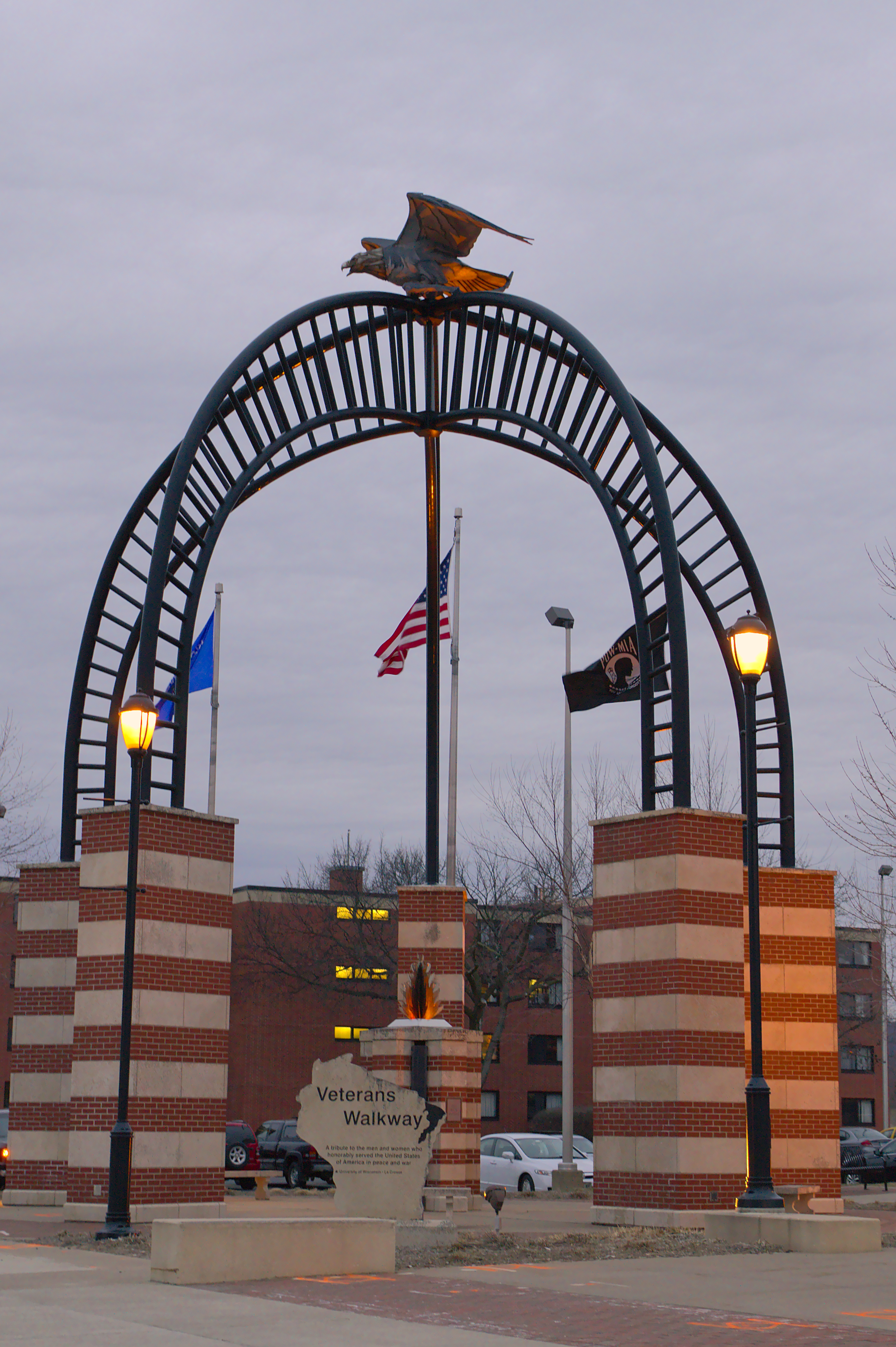 Veteran's Memorial Monument. The inscription below reads, "Veteran's Walkway. A tribute to the men and women who served the United States of America in peace and war".